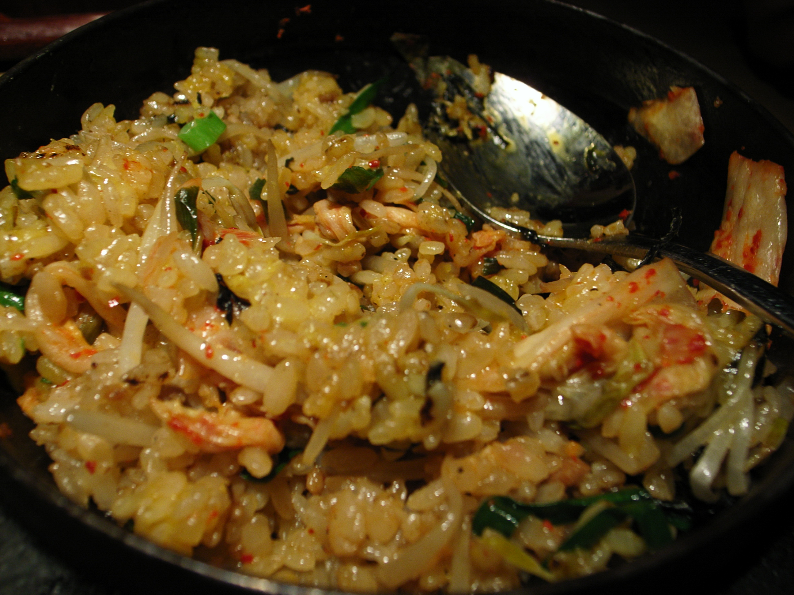 Kimchi bokkeumbap (김치볶음밥, literally "kimchi fried rice")